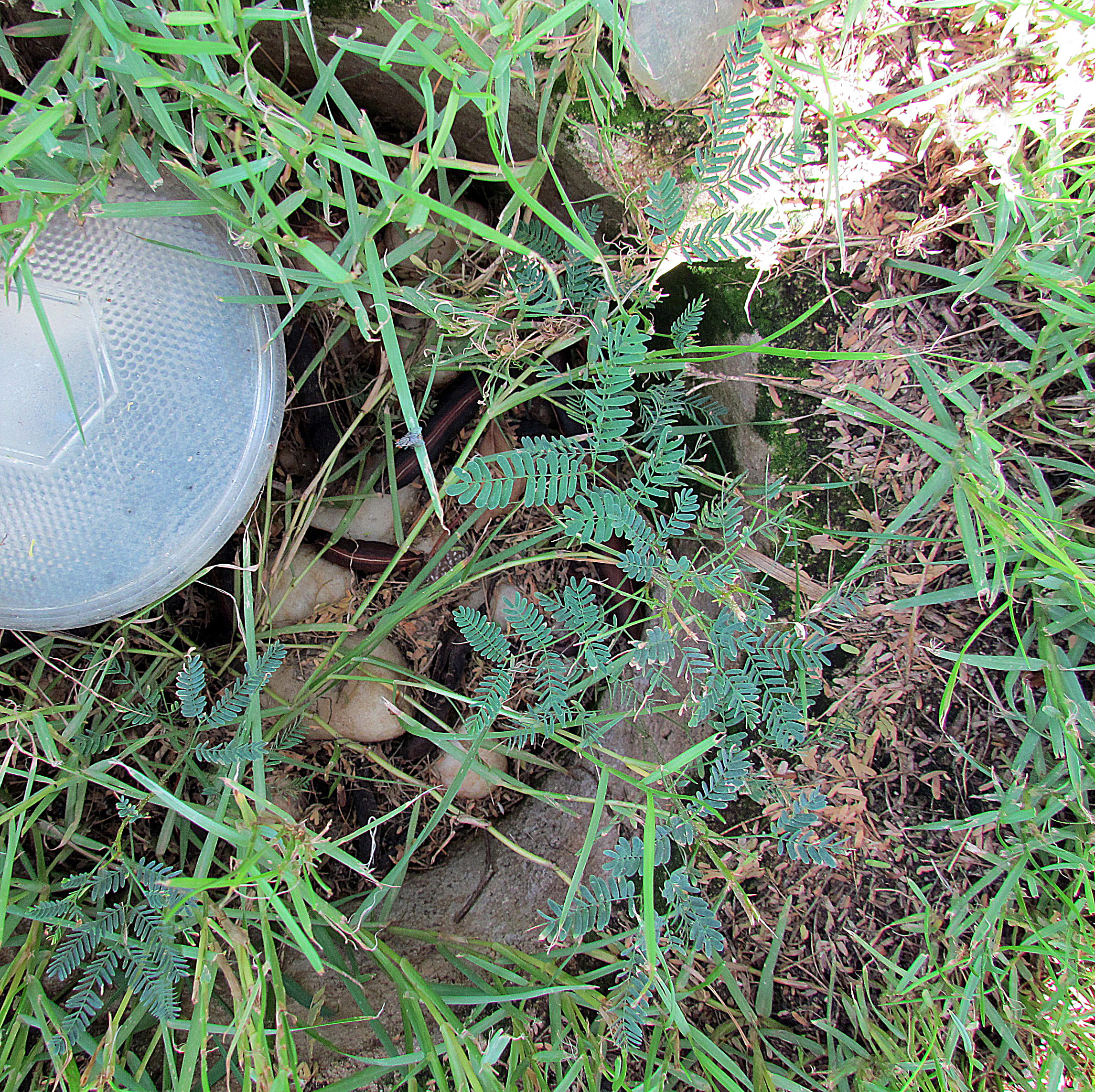 Vachellia farnesiana seedlings (Sharm el-Sheikh)